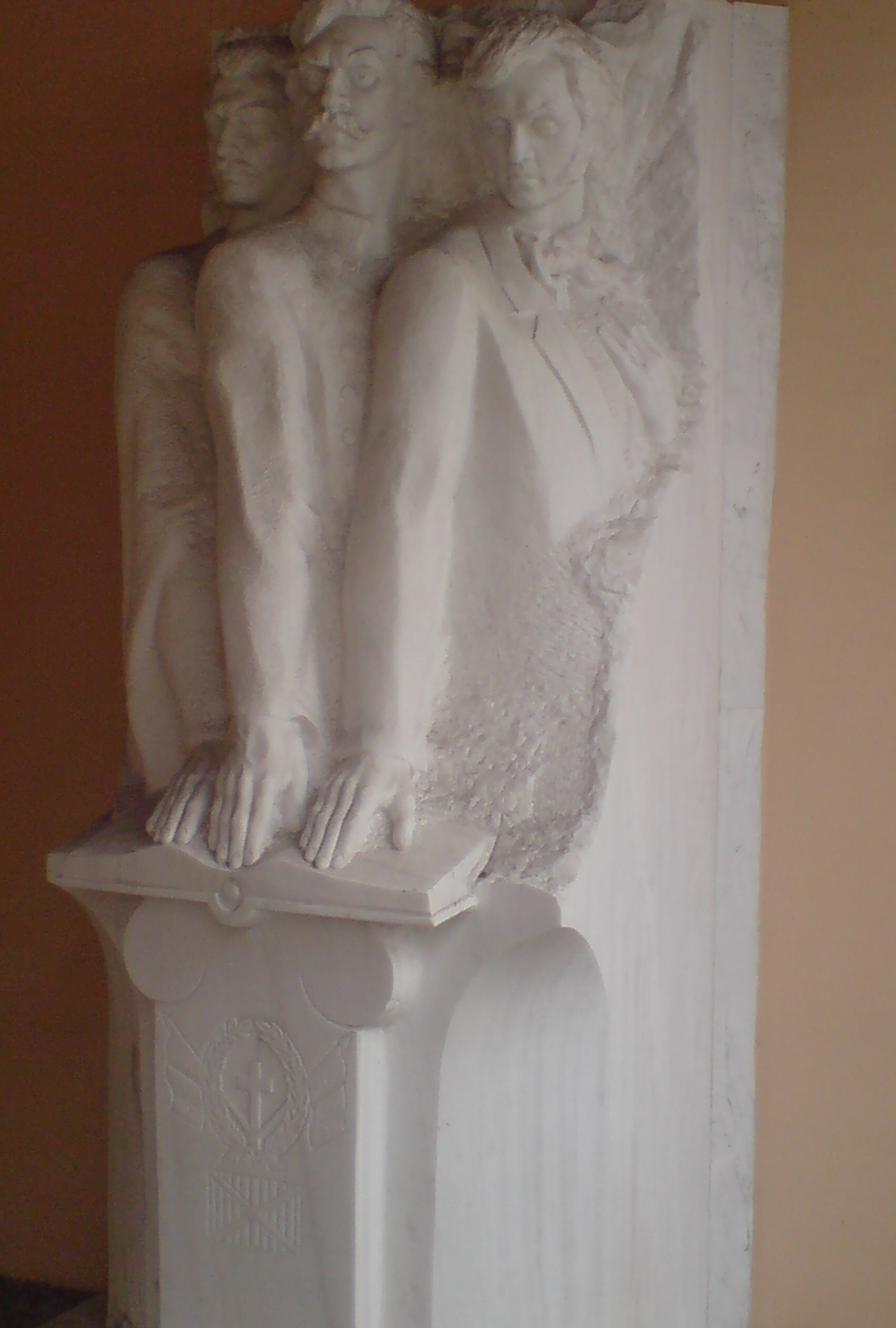 Monument "Oath of establishers of Filiki Eteria" Ukraine, Odesa, square Gretska